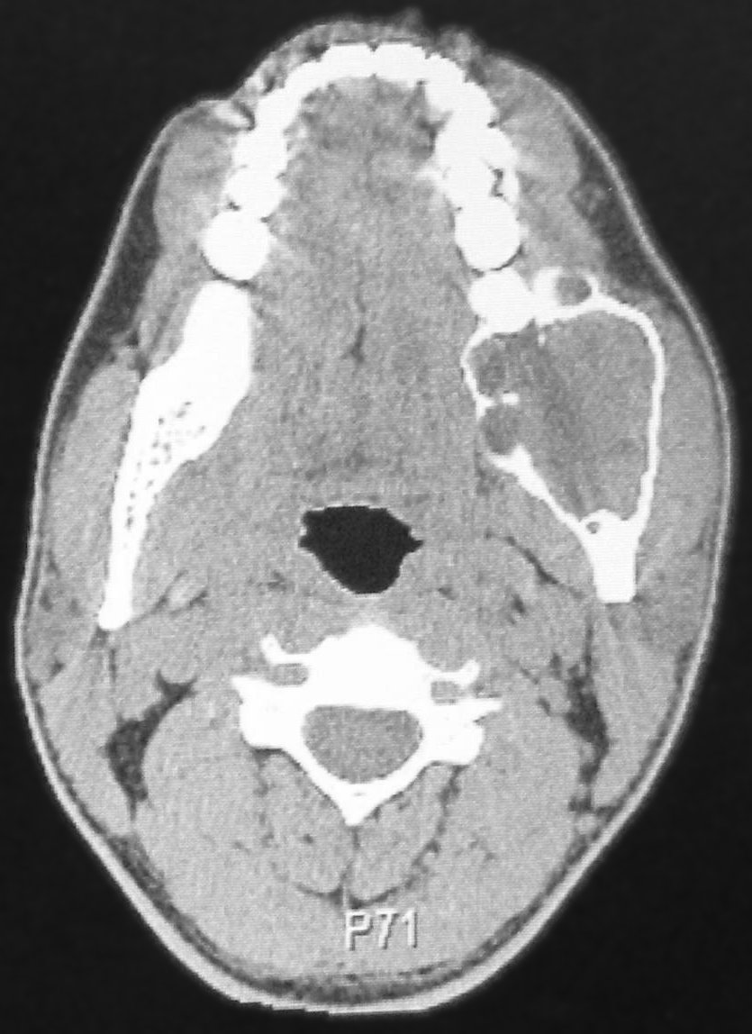 CT scan of a patient with an ameloblastoma initiated at the left mandibular third molar